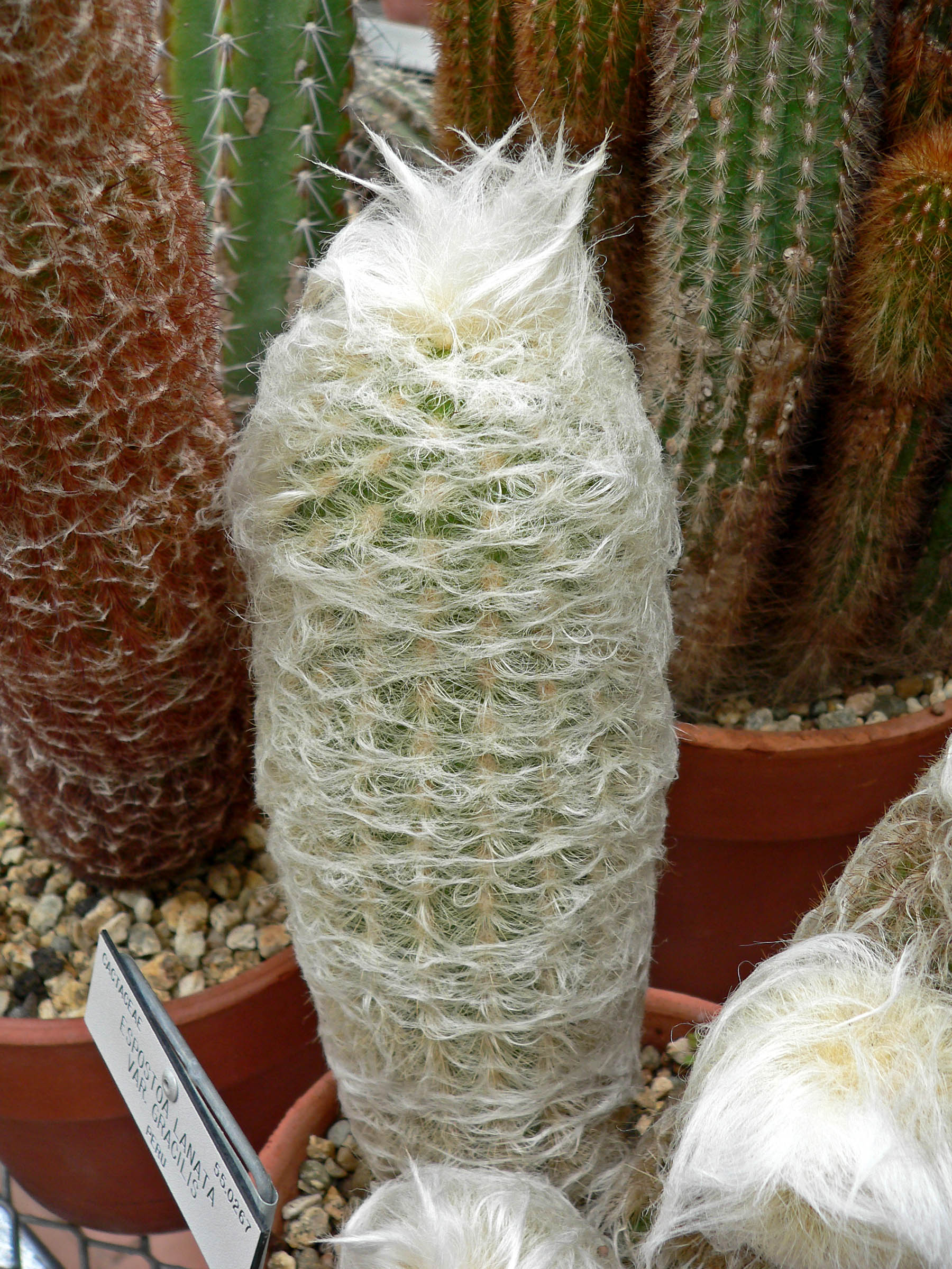 Photo of Espostoa lanata var. gracilis at the University of California Botanical Garden